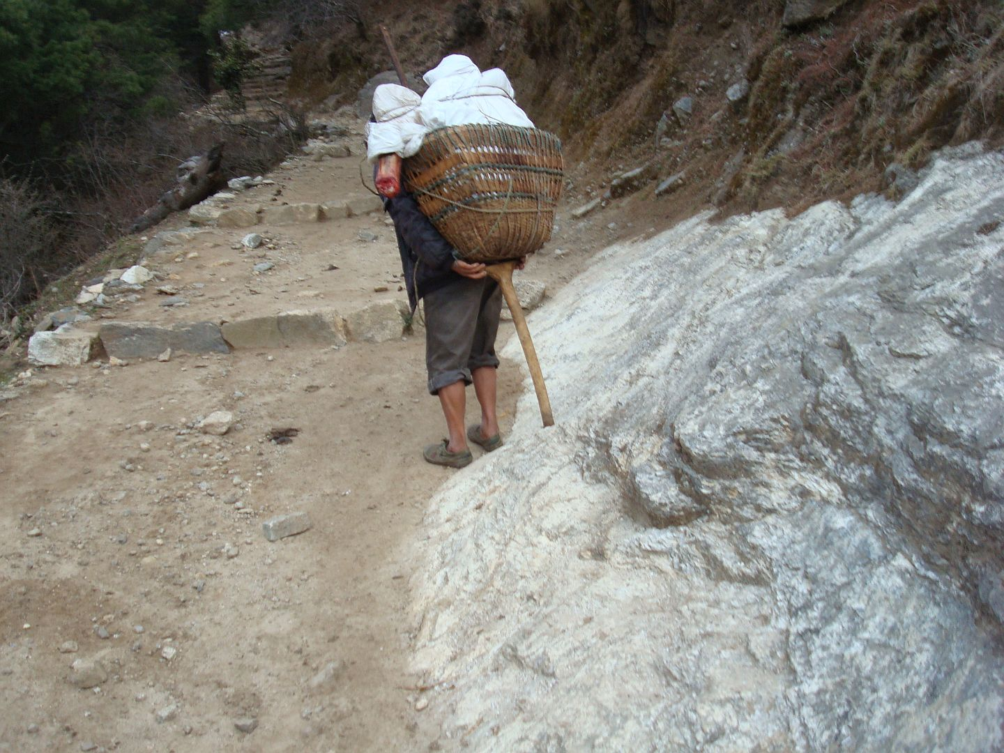 A porter's gear is simple but effective: The load goes into an oversized basket, or doko, which rests against the back. A strap runs underneath the doko and over the crown of the head, which bears most of the weight. Each porter also carries a T-shaped walking stick called a tokma.